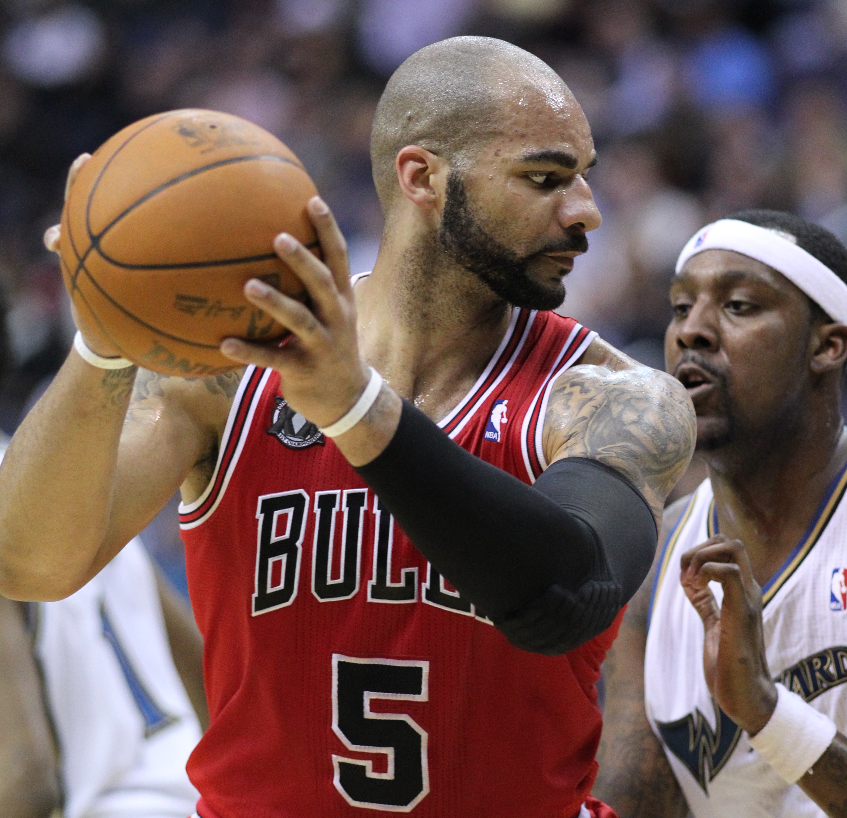 Wizards v/s Bulls 02/28/11